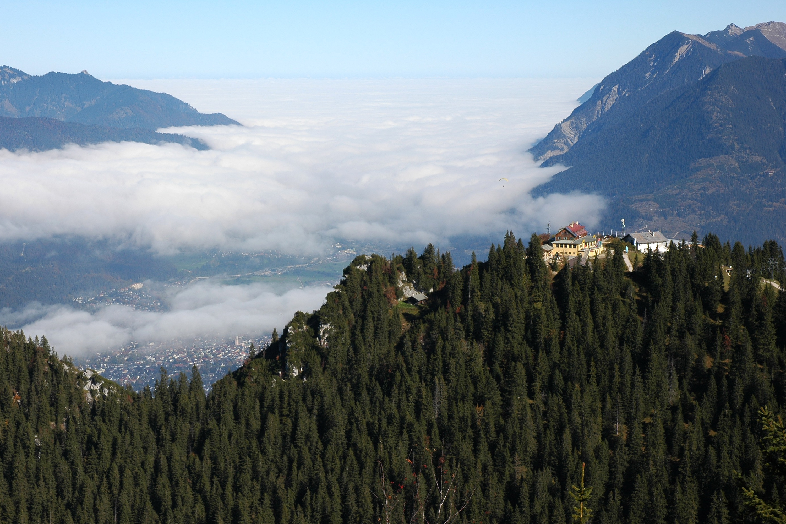 View of Kreuzeck summit with Kreuzeckhaus. At the cutting on the left side Garmisch-Partenkirchen is visible under the cloud cover.